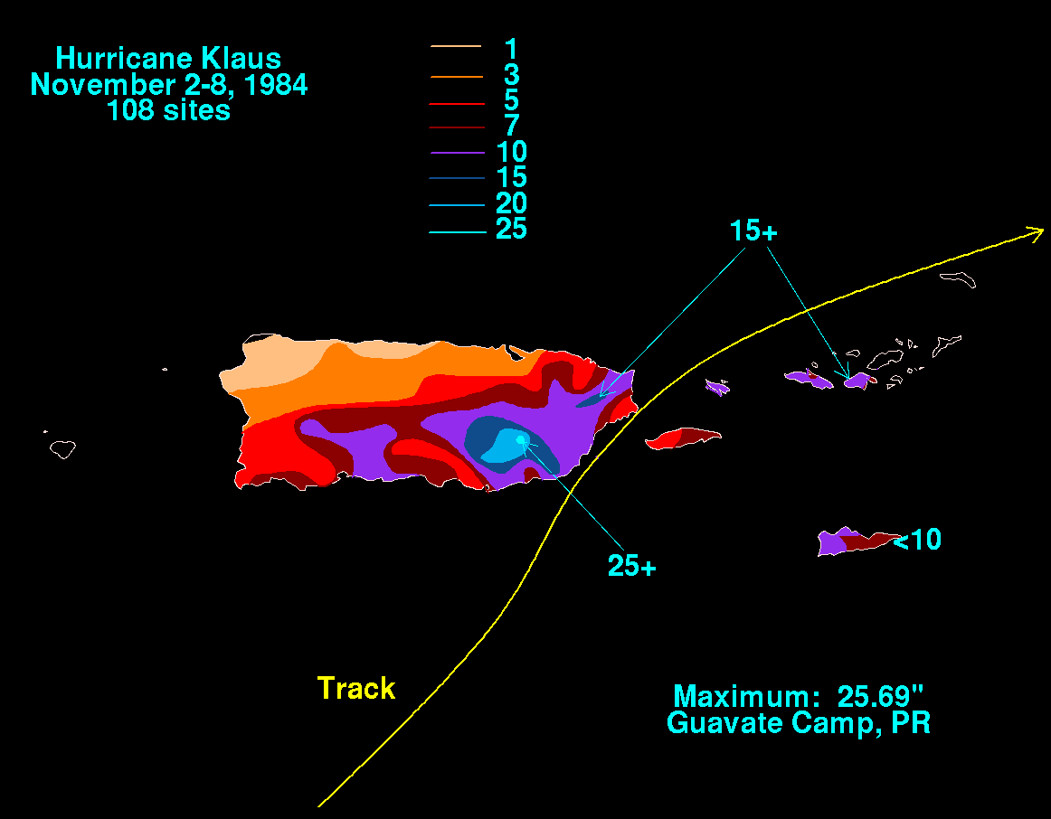 Storm total rainfall map of Hurricane Klaus during November 1984.